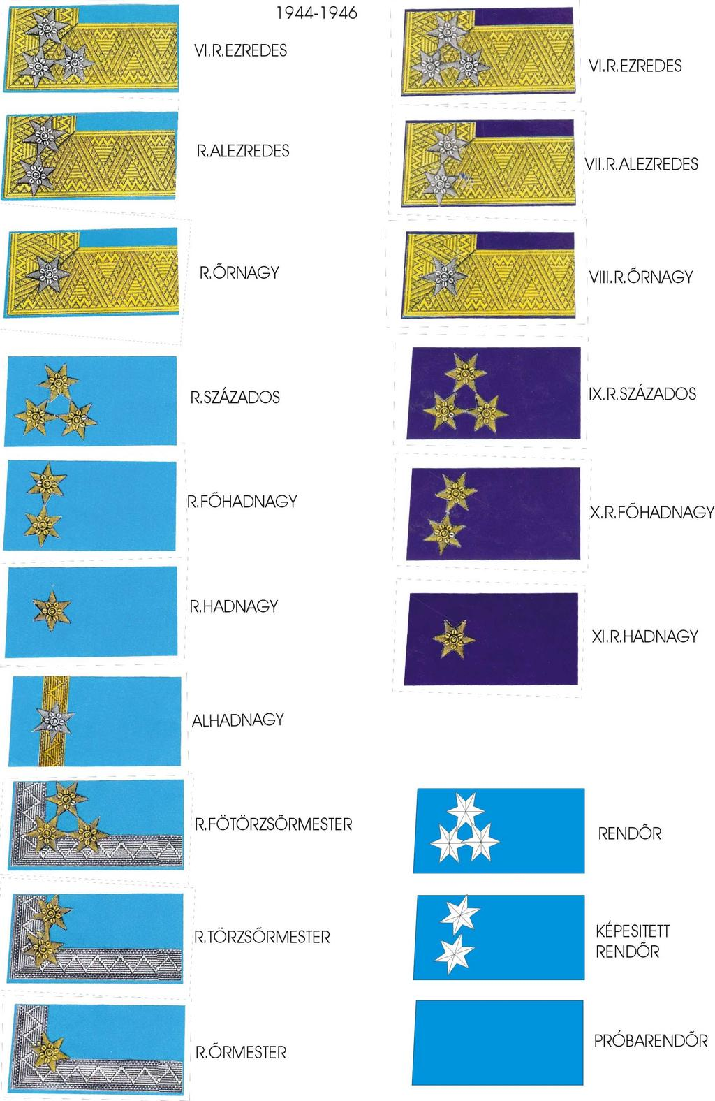 rendőr